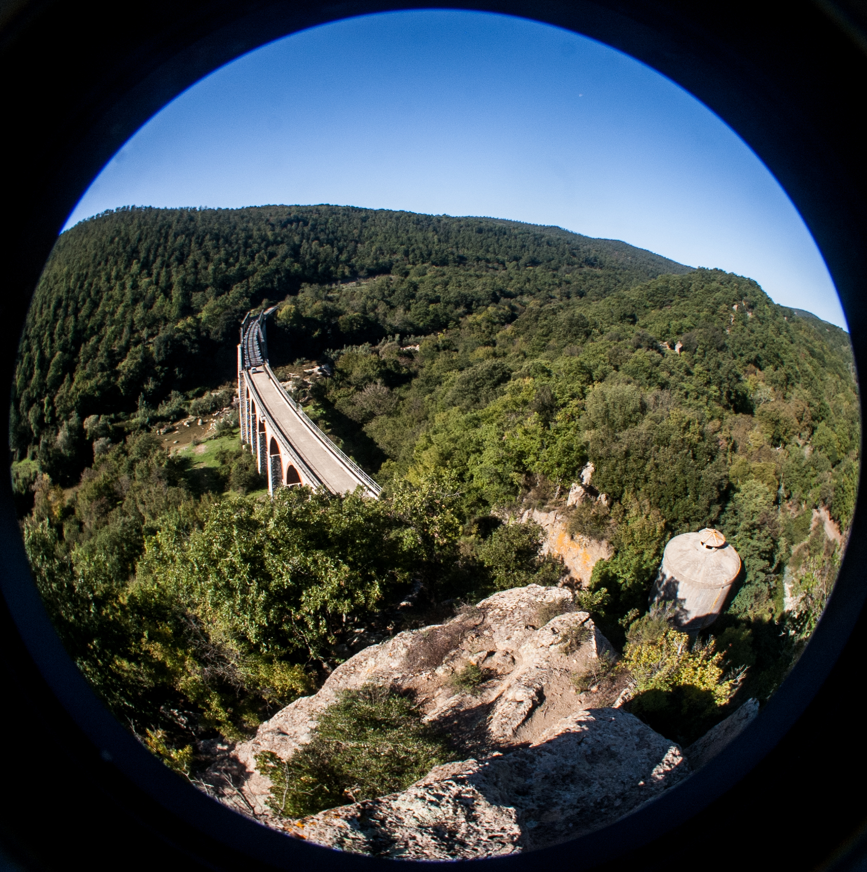 The disused railroad bridge at Luni sul Mignone, close to the former station of Monte Romano, Lazio, Italy.